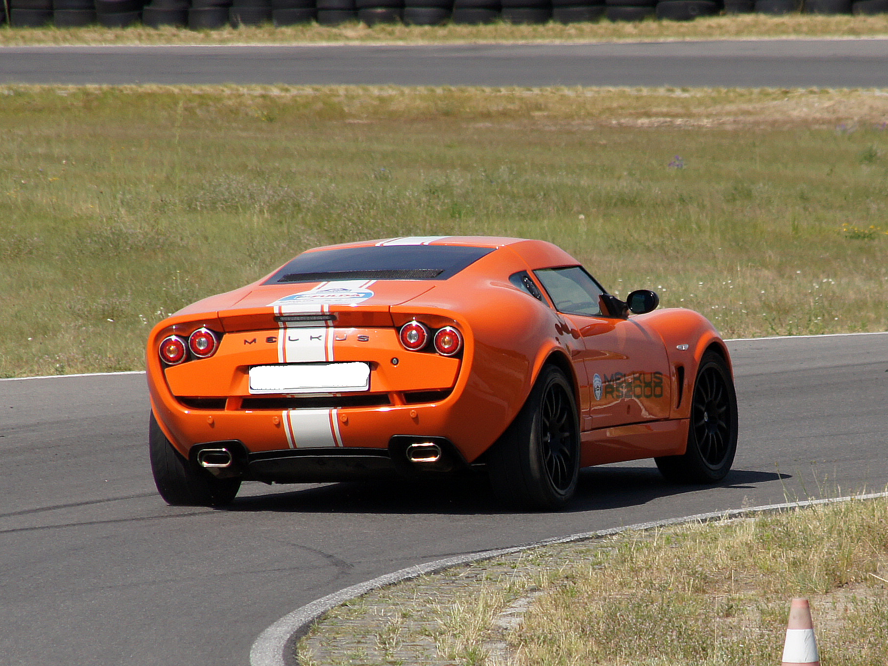 Melkus RS2000 on the circuit, right side